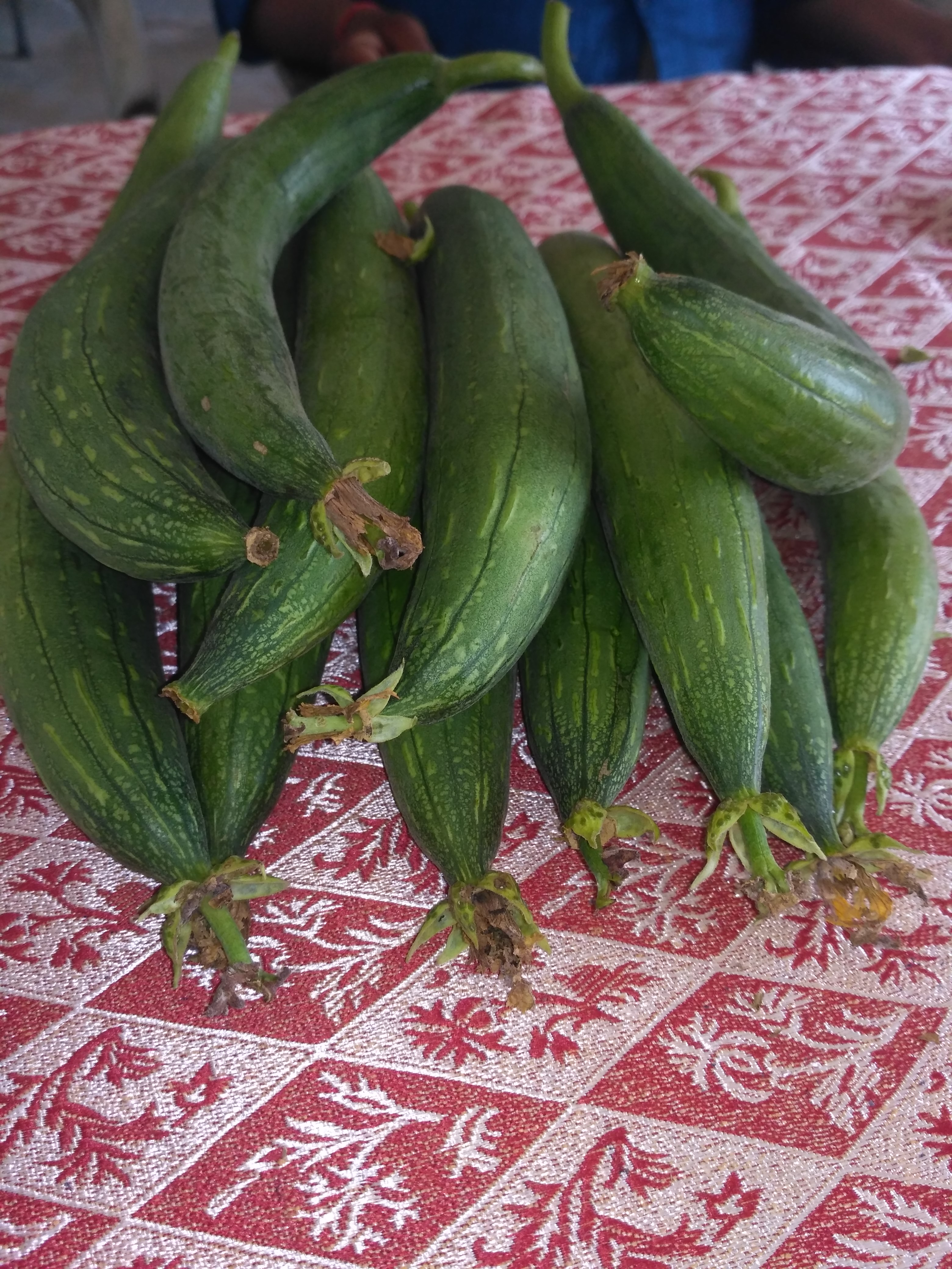 A kind of vegetable